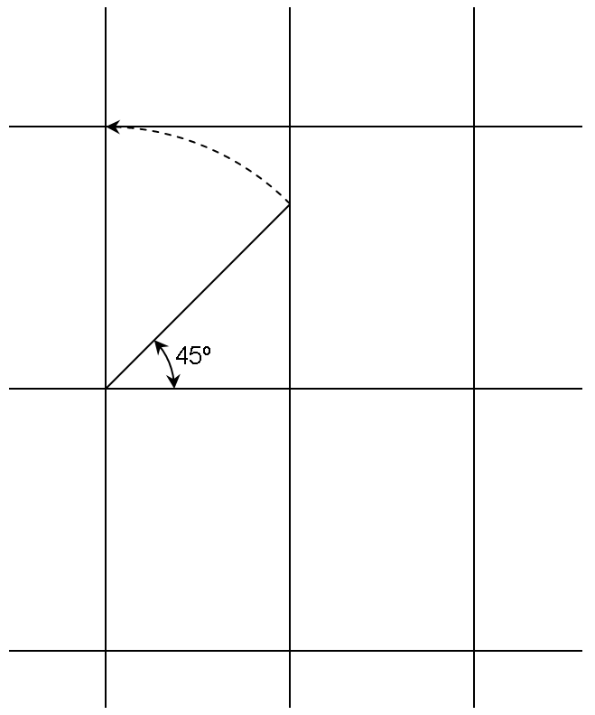 Construction of plotting sheet by drawing a line between two meridians at the angle of the mid-latitude, in this case 45º. The length of this line is the length of the latitude.